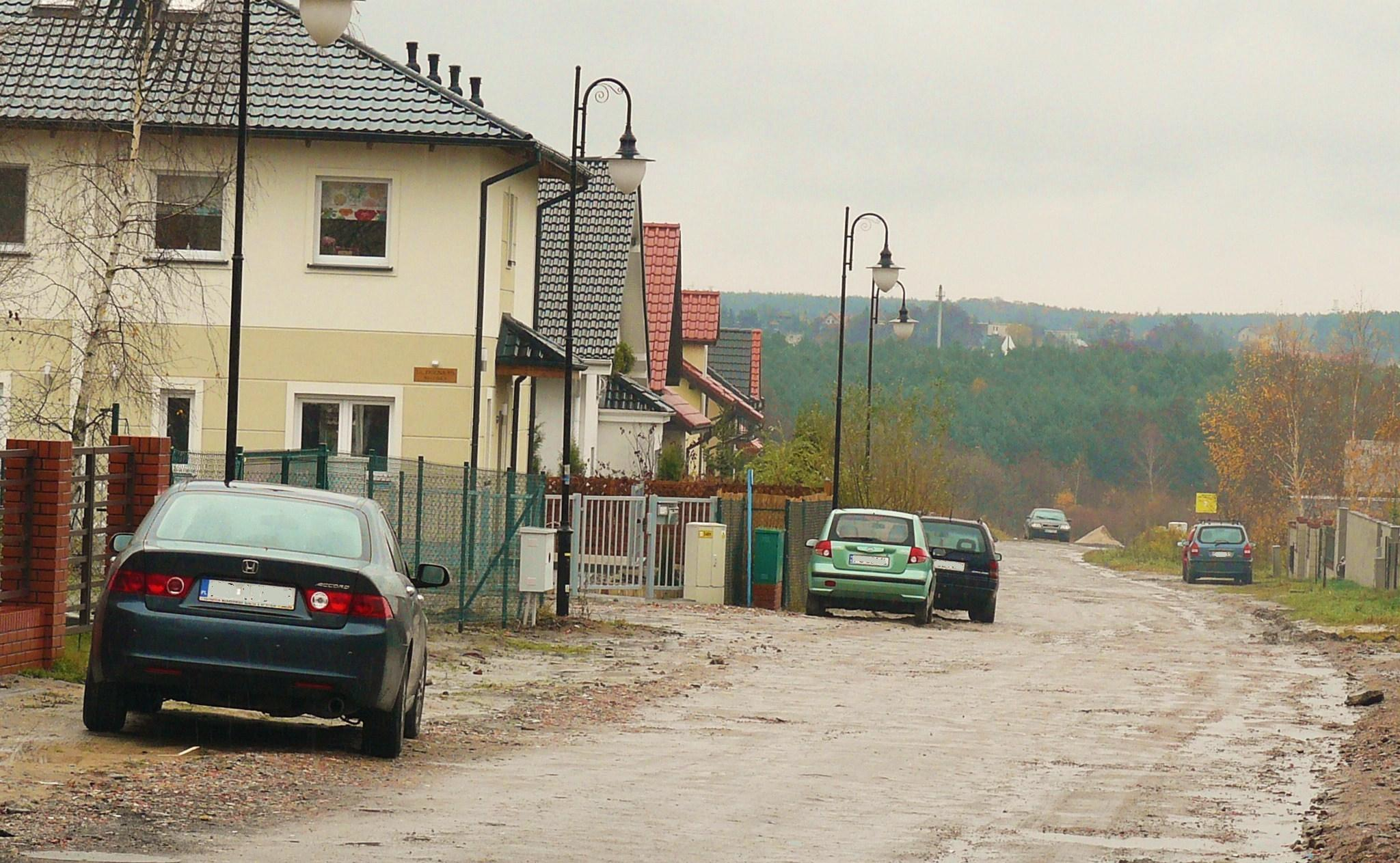 Poznan, Kresowa Street.